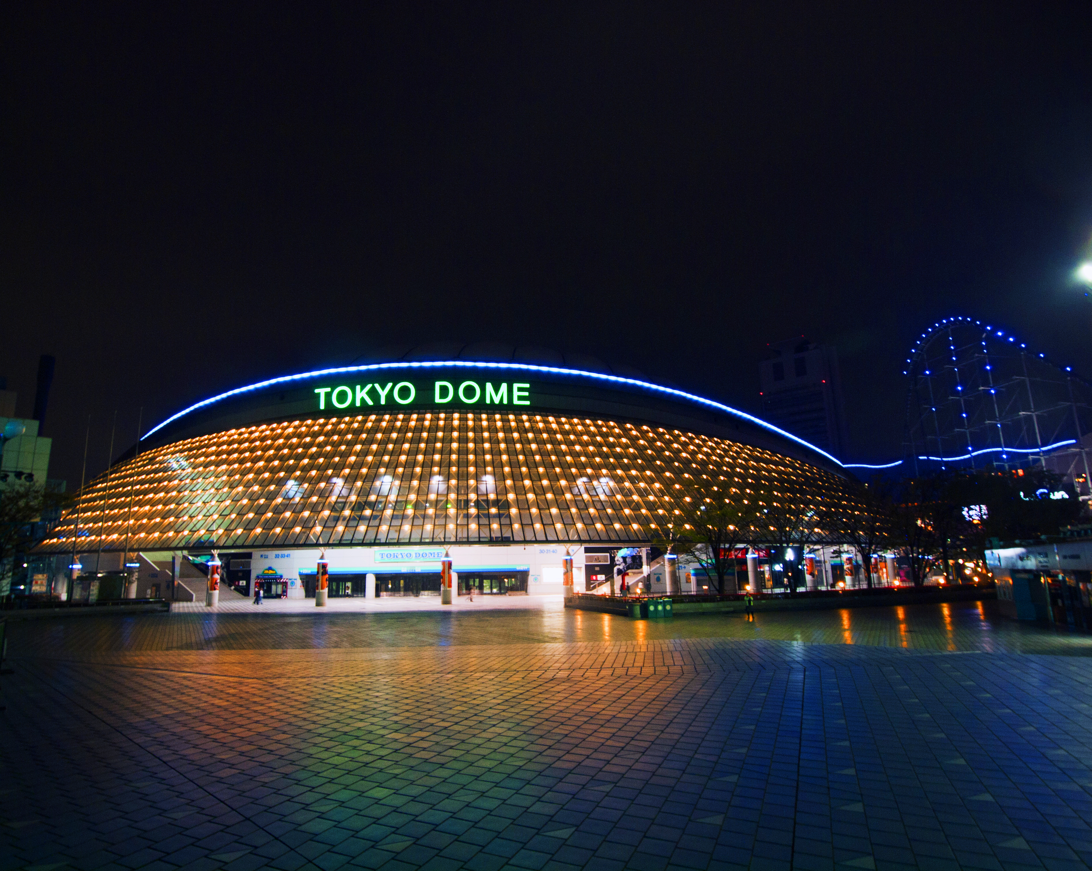 Tokyo Dome, the franchise stadium for the Yomiuri Giants, hosting more than 60 games yearly, at night.